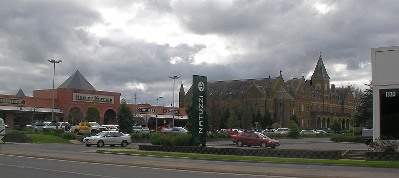 Howitt Street Wendouree near the Gilles Street intersection. Ballarat, Victoria Australia